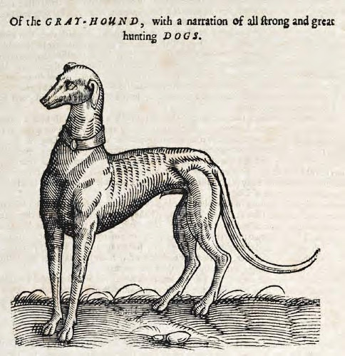 This woodcut is an illustration from the book The history of four-footed beasts and serpents by Edward Topsell.